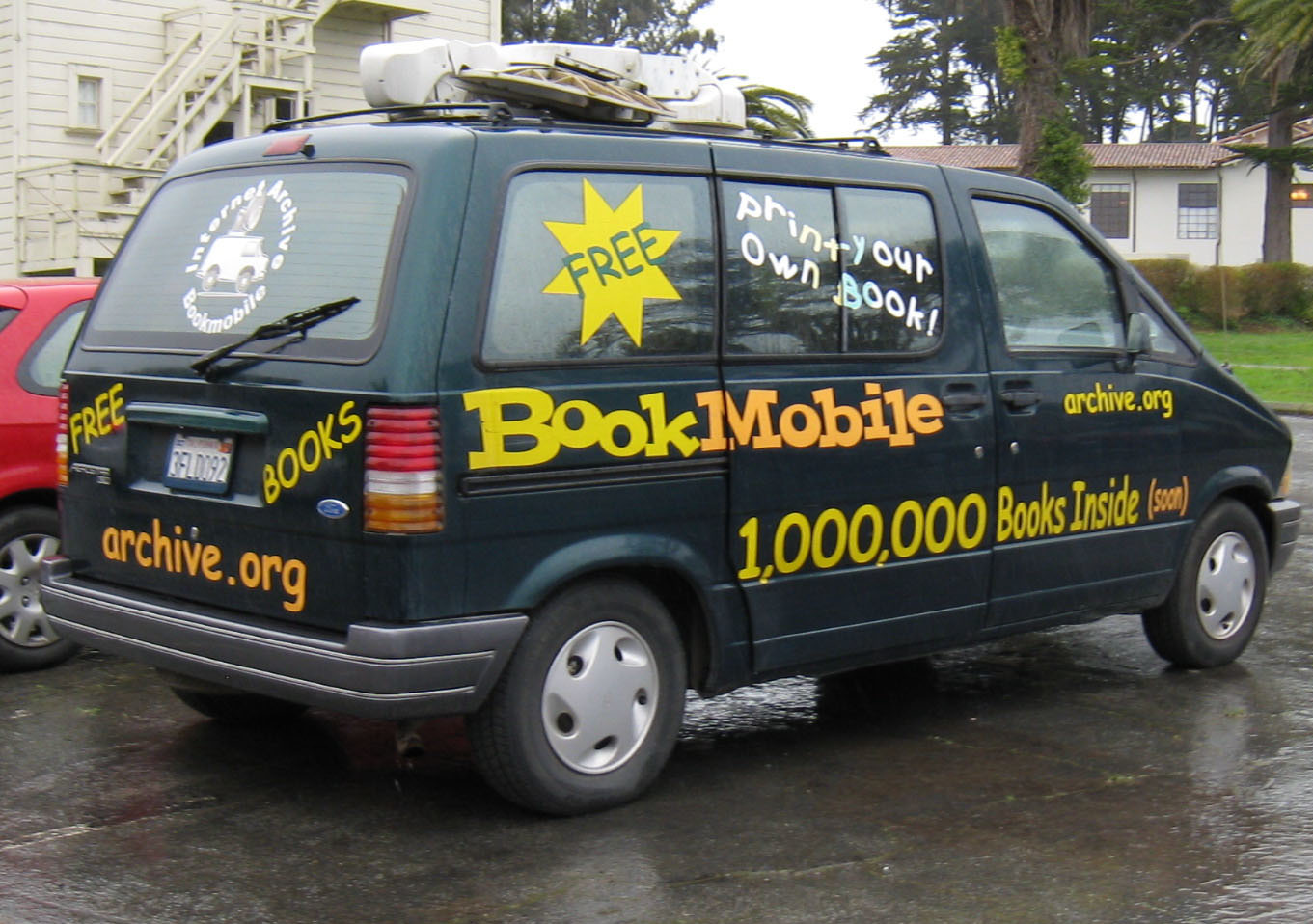 A bookmobile maintained by the Internet Archive, shown here parked in San Francisco, California. It contains a satellite connection for Internet access and a machine to print books inexpensively on demand.